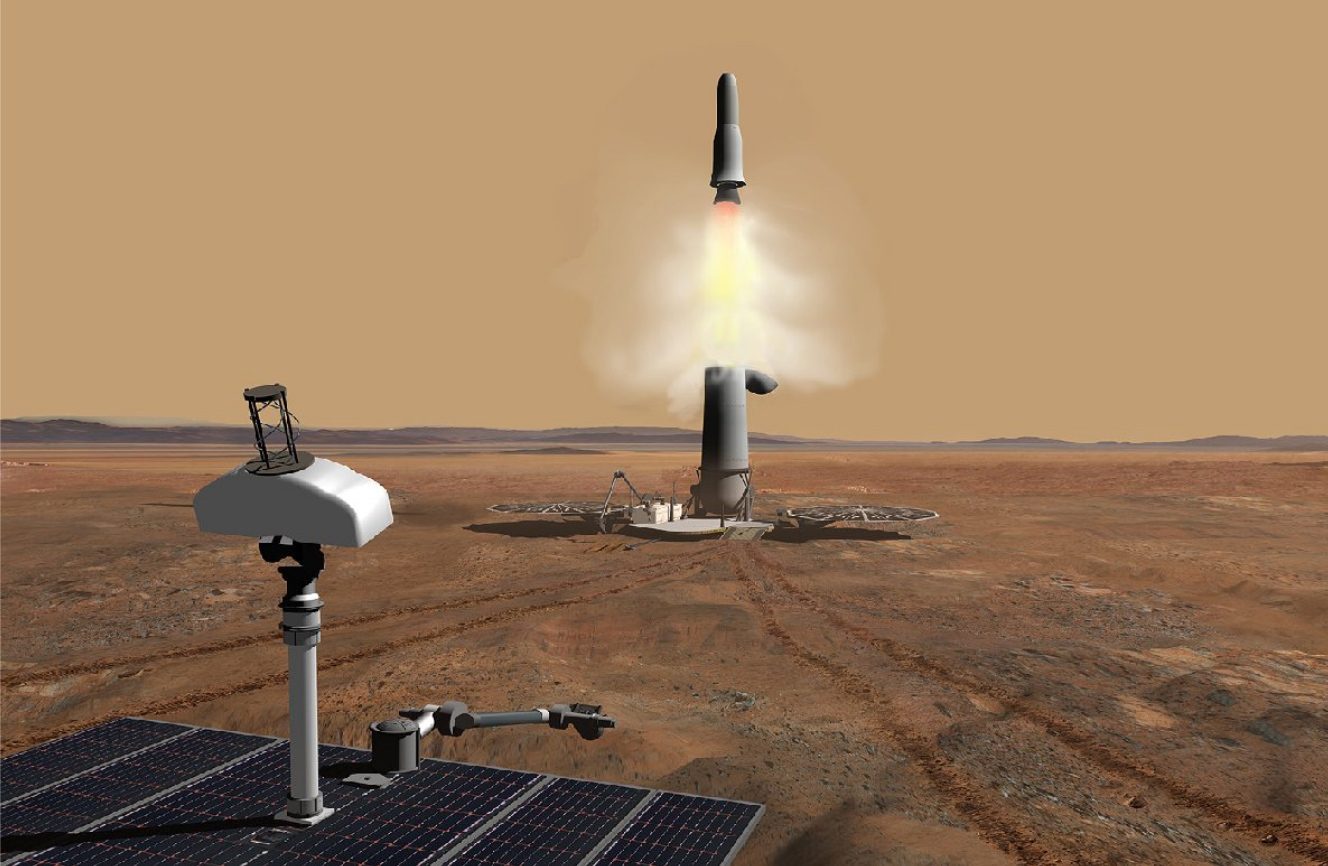 Mars-sample-return : Mars-ascent-vehicule launch